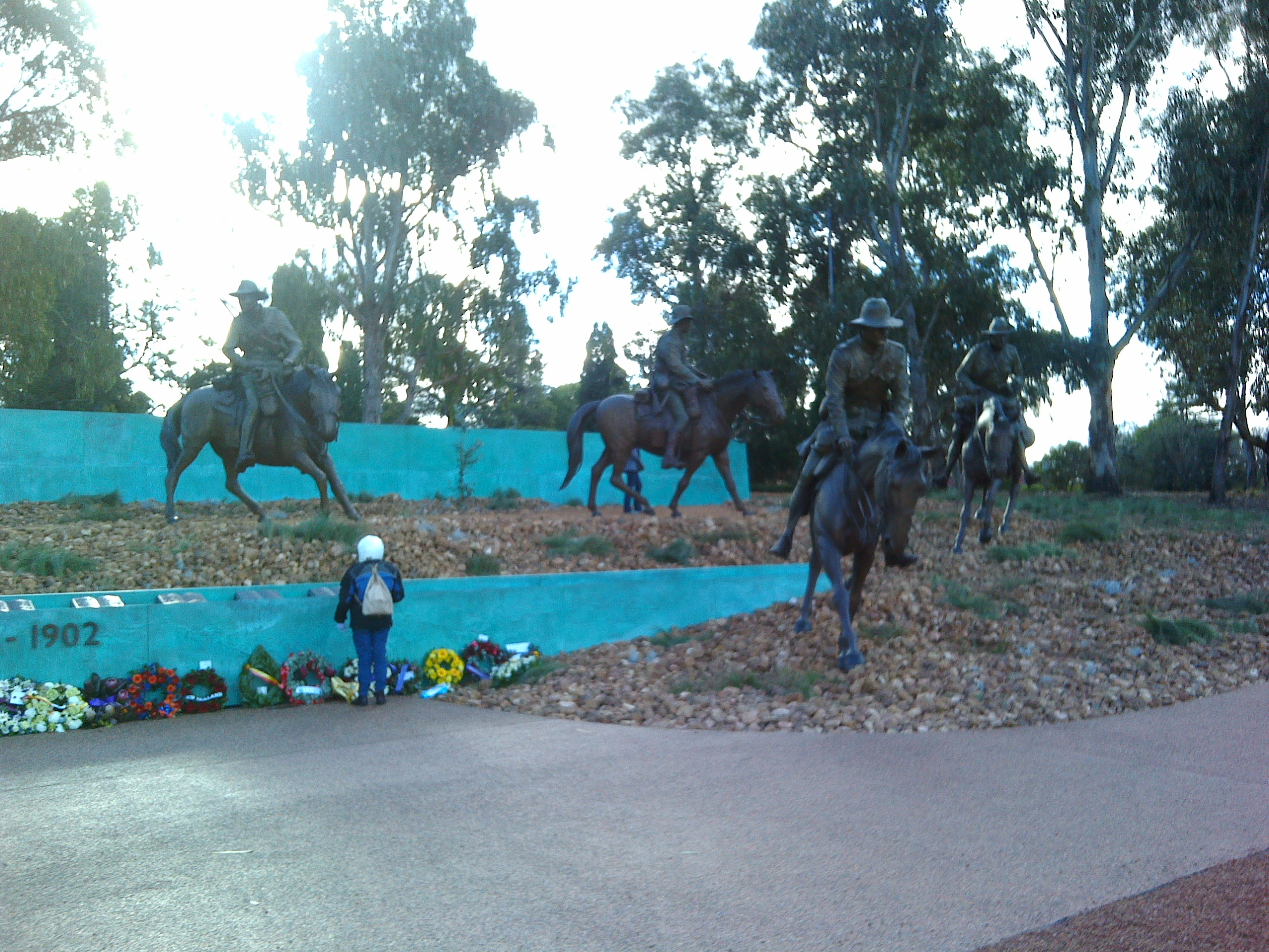 Boer War Memorial, Canberra horses and riders. Dedicated 31 May 2017 by the Governor General of Australia, General Sir Peter Cosgrove.